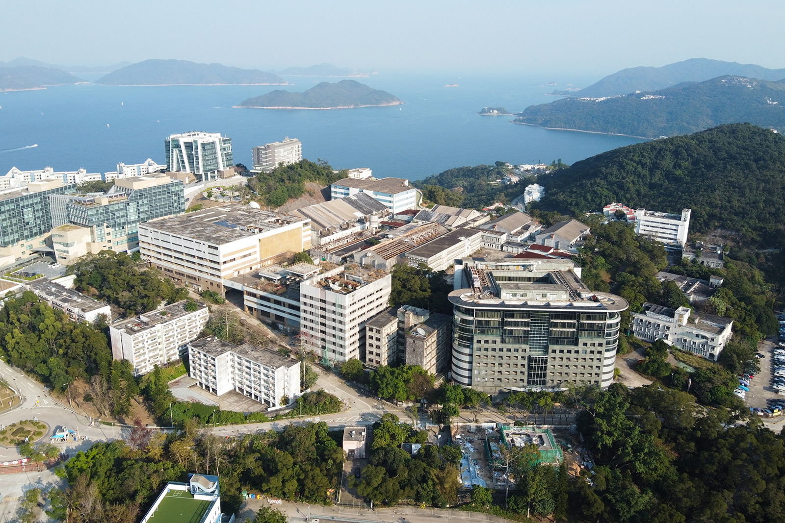 Shaw Studio